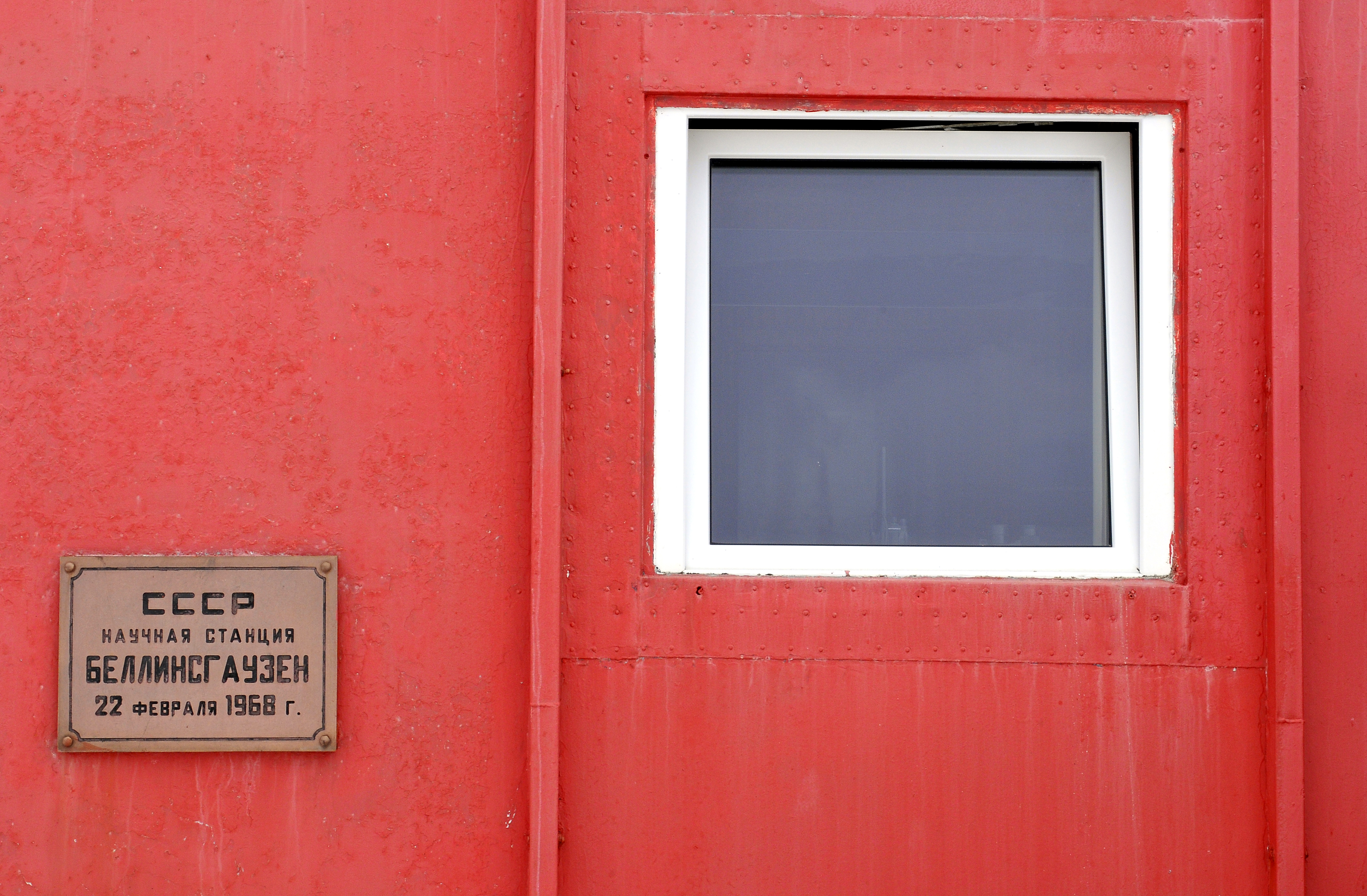 Founding plaque and a window at the "Bellingshausen" antarctic russian station. King George Island, South Shetland Islands, Antarctica